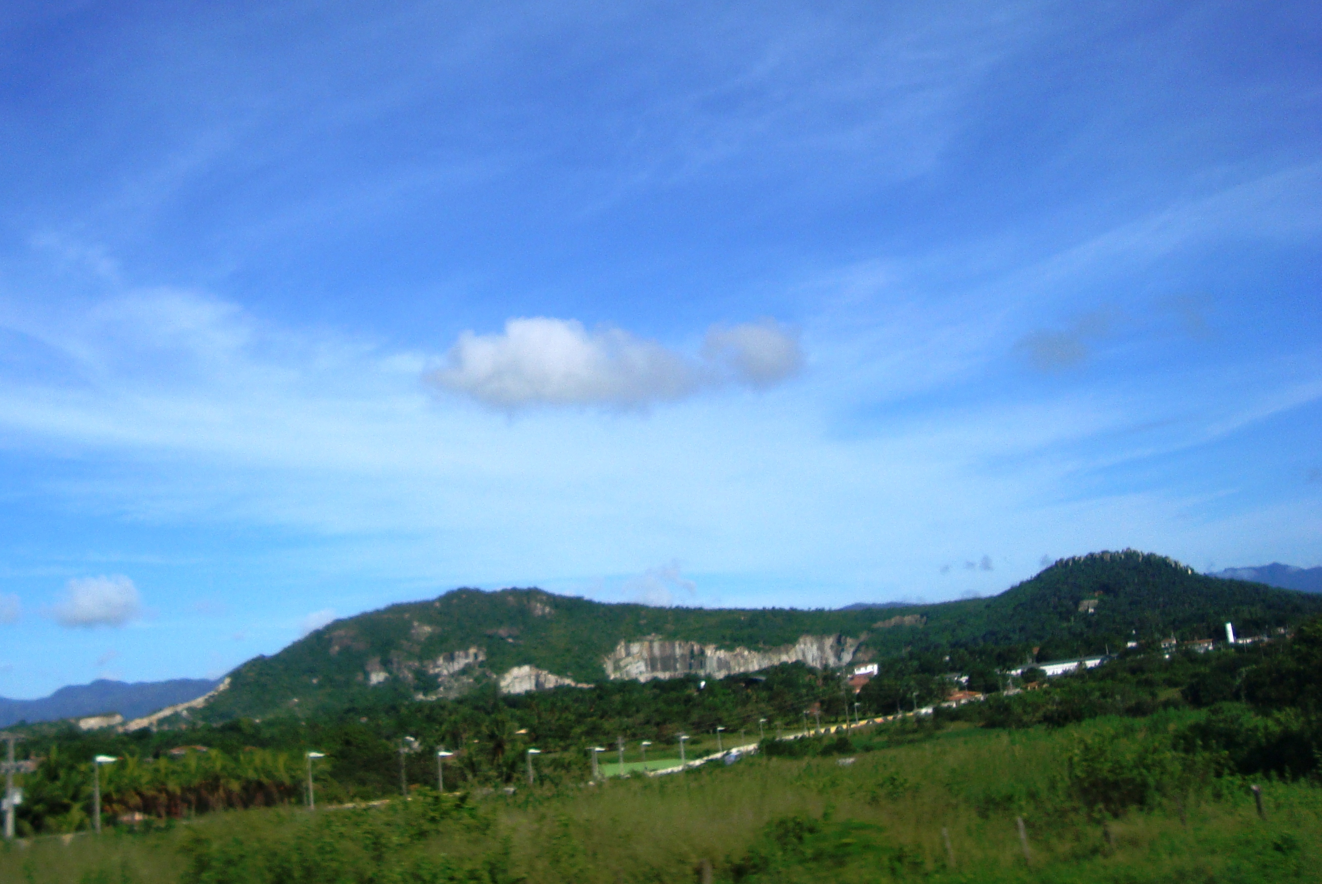 Serra de Itaitinga